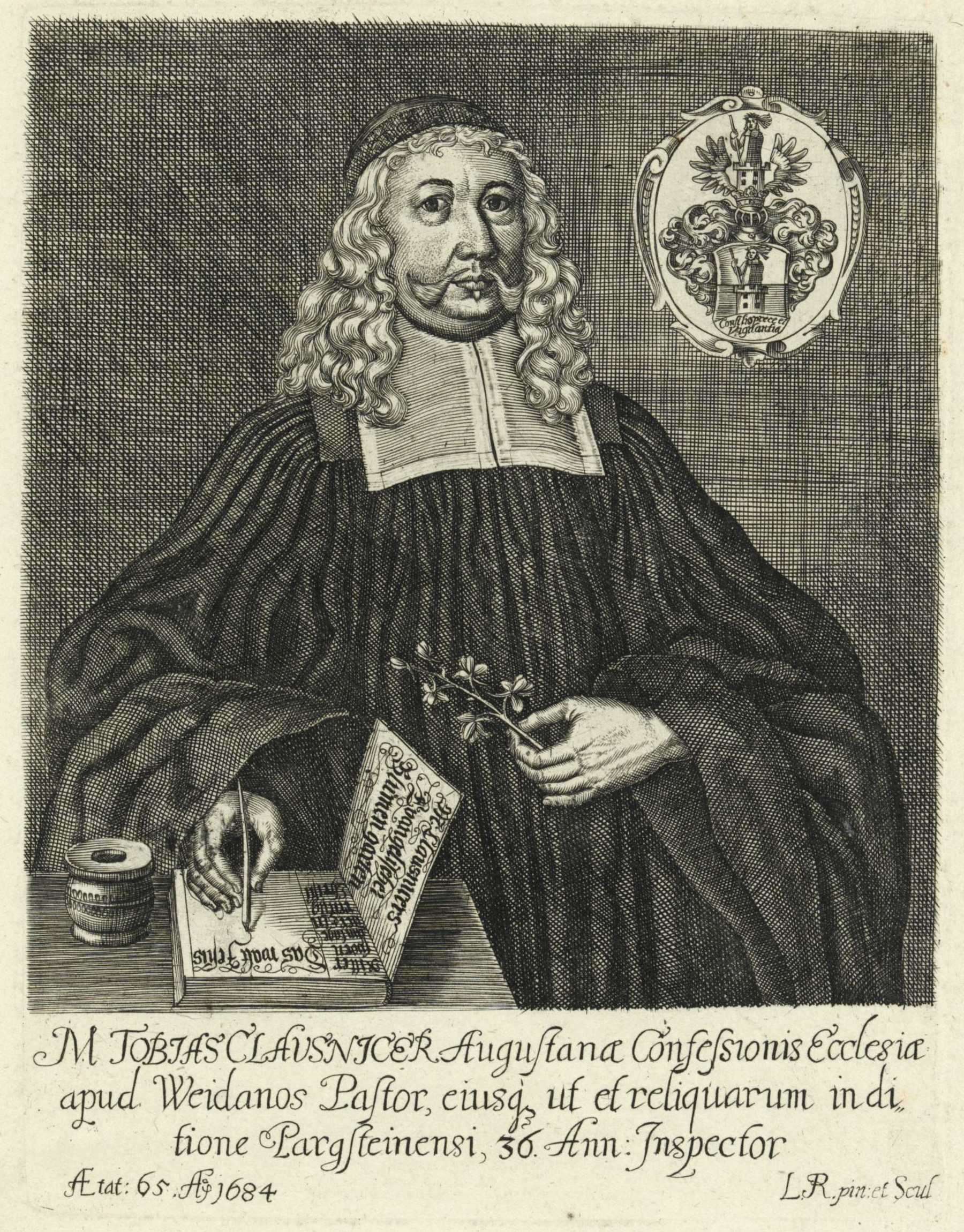 Depicted person: Tobias Clausnitzer